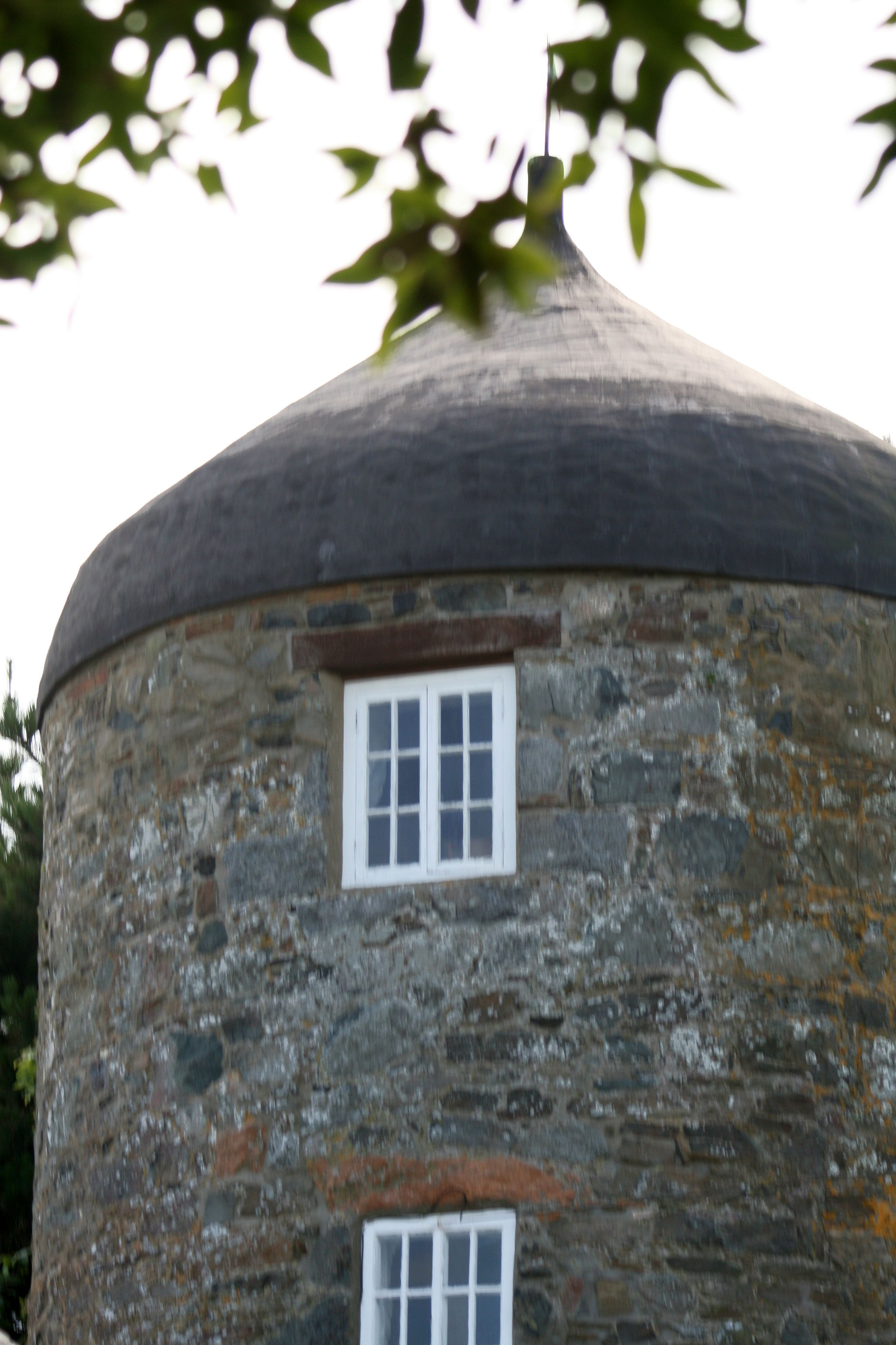 Sark, June 2009